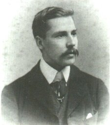 Arthur Edward Waite in the early 1880s